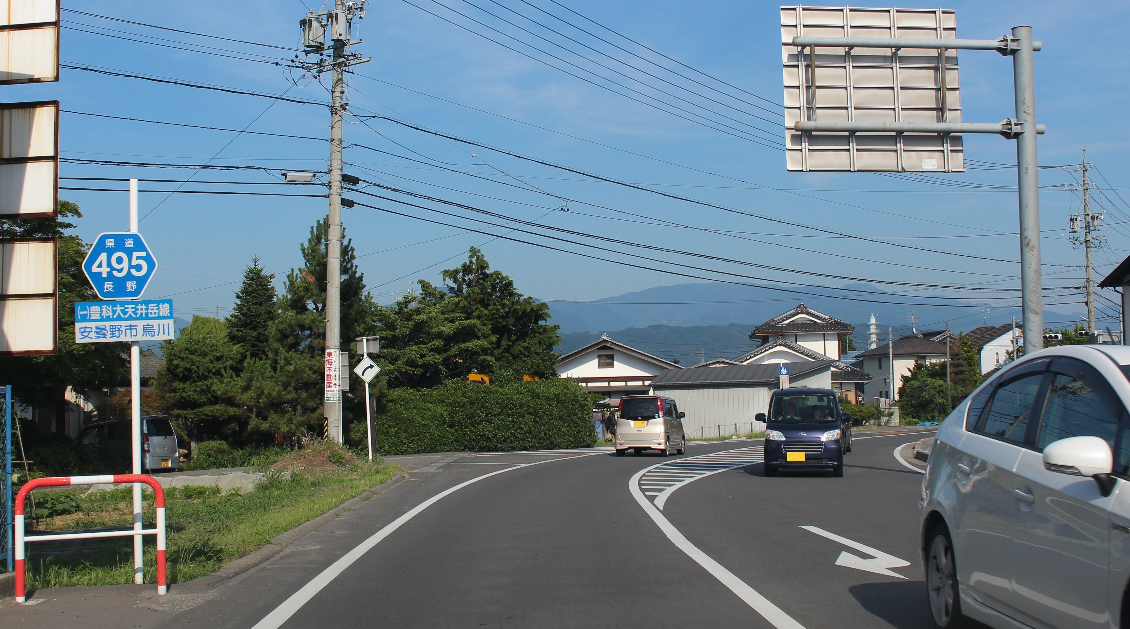 Nagano Prefectural Road Route 495 in Azumino, Nagano prefecture, Japan.